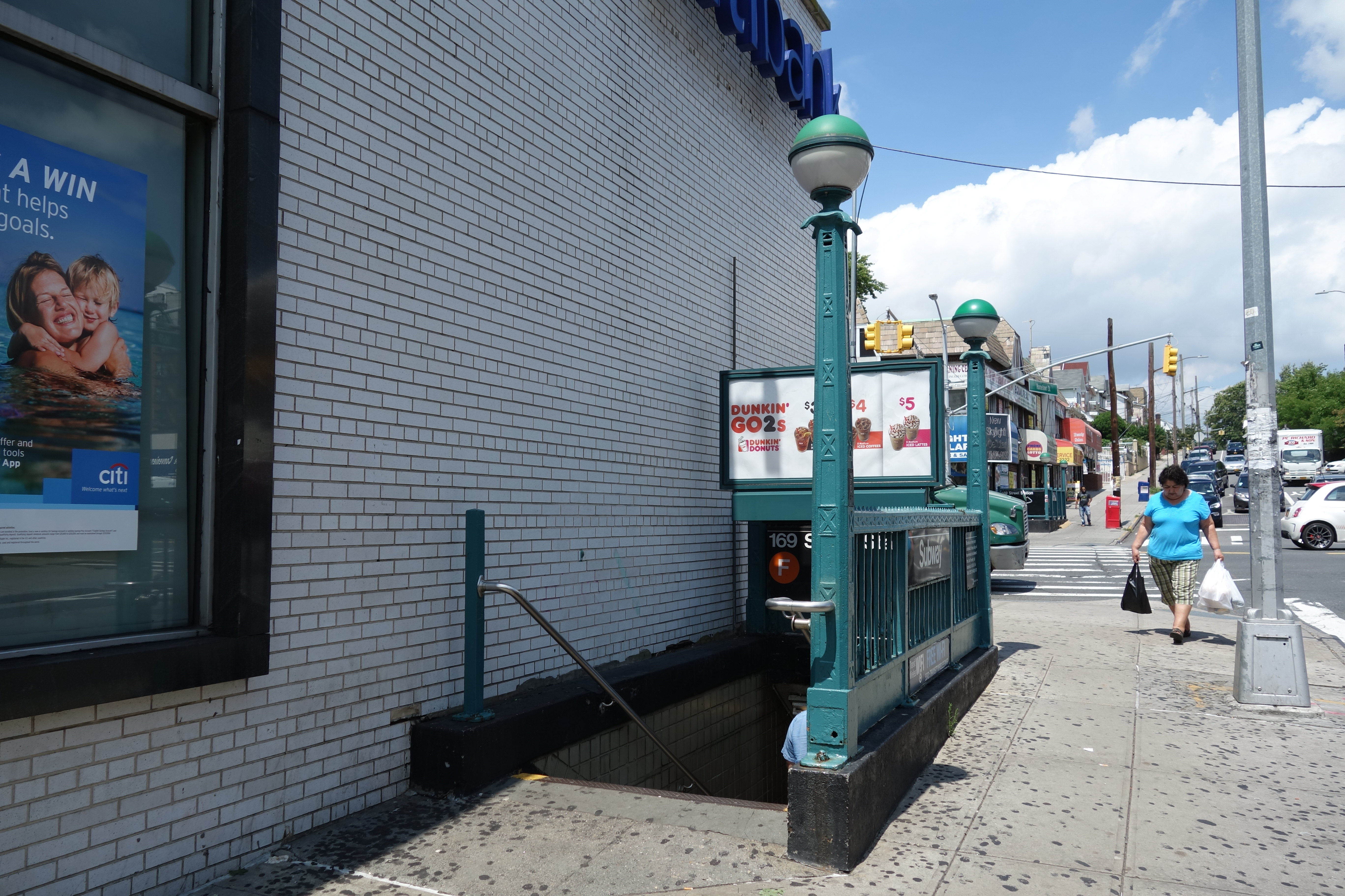 An entrance to the 169th Street IND subway station at the southwest corner of Hillside Avenue and 169th Street in Jamaica, Queens.